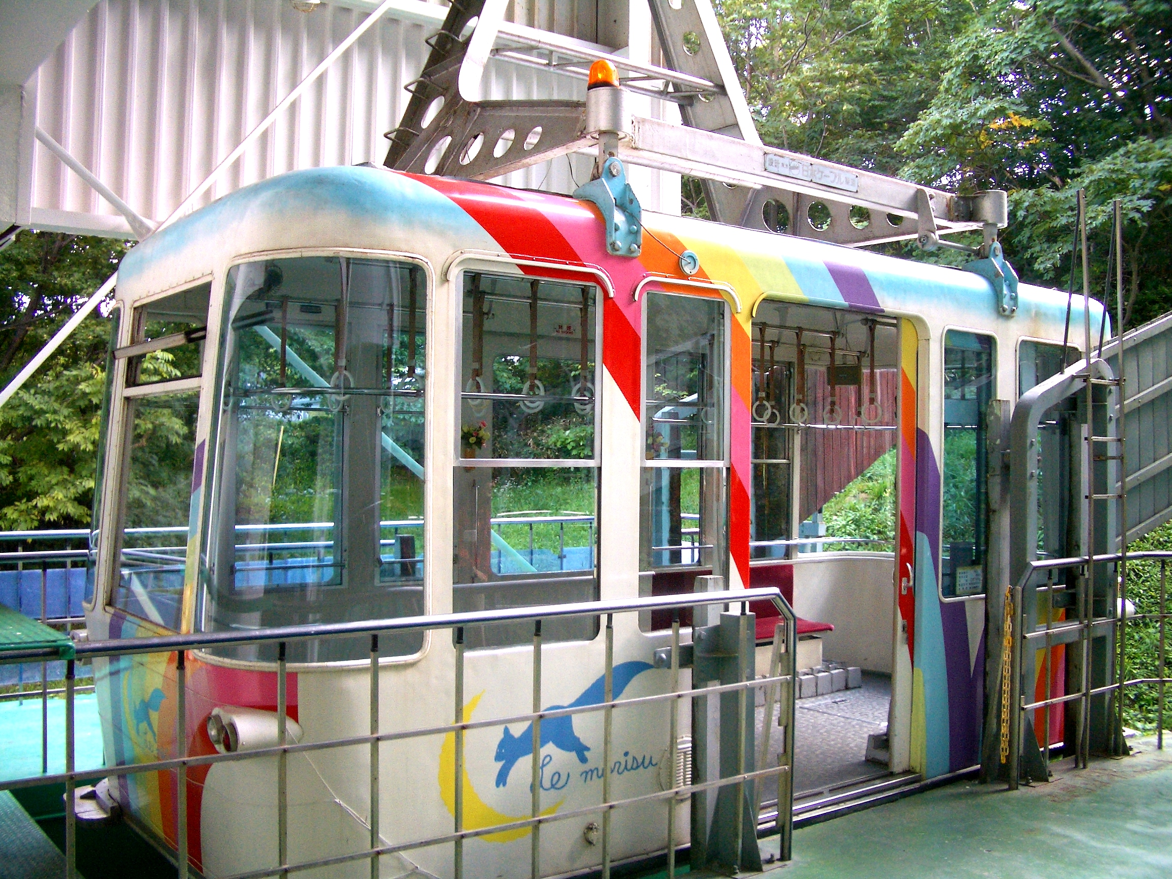 Moiwayama Ropeway, Sapporo.